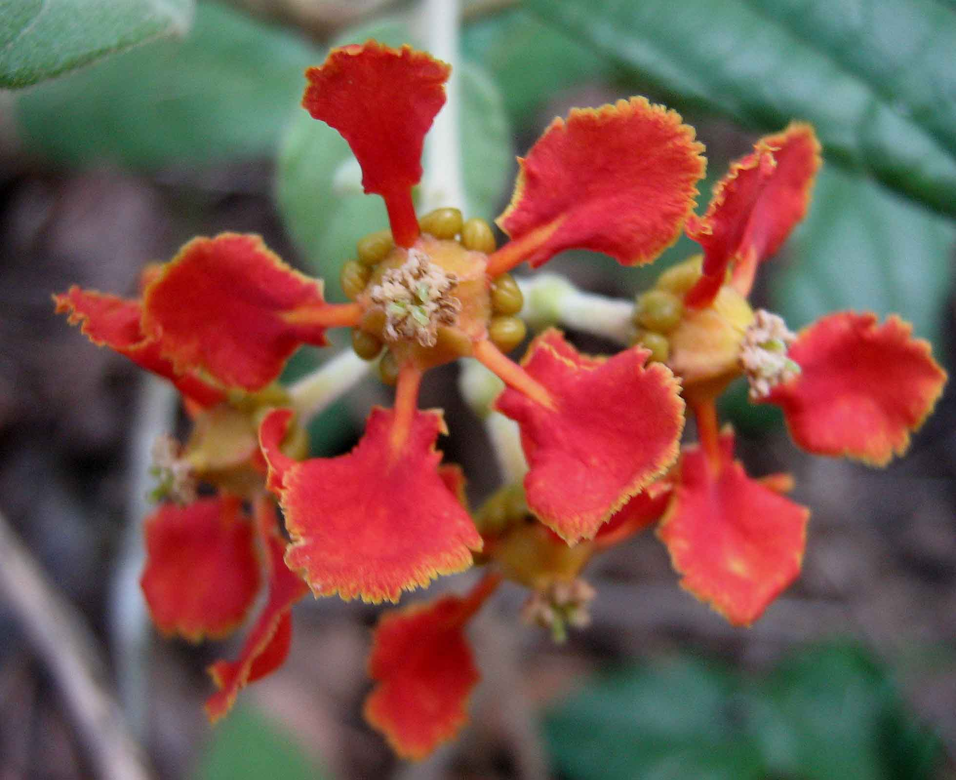 Flowers turned red.